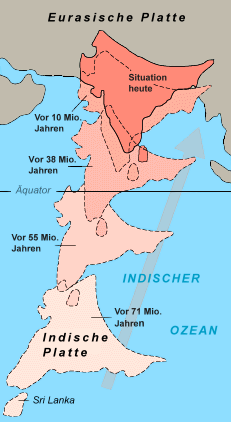 The 6,000-km-plus journey of the India landmass (Indian Plate) before its collision with Asia (Eurasian Plate). India was once situated well south of the Equator, near the continent of Australia.